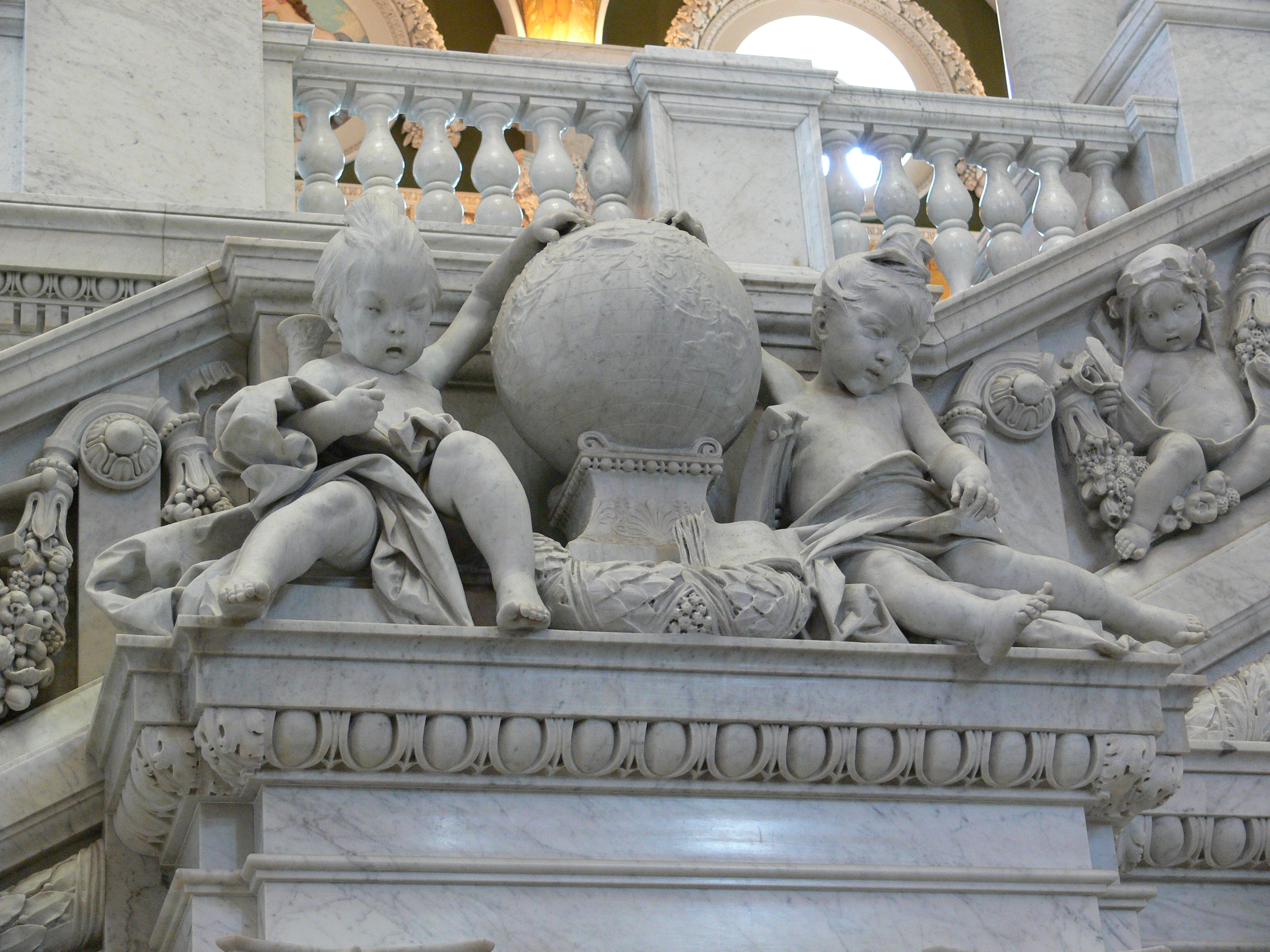 Personifications of Asia and Europe Great Hall, Library of Congress (Jefferson Building), Washington, D.C.